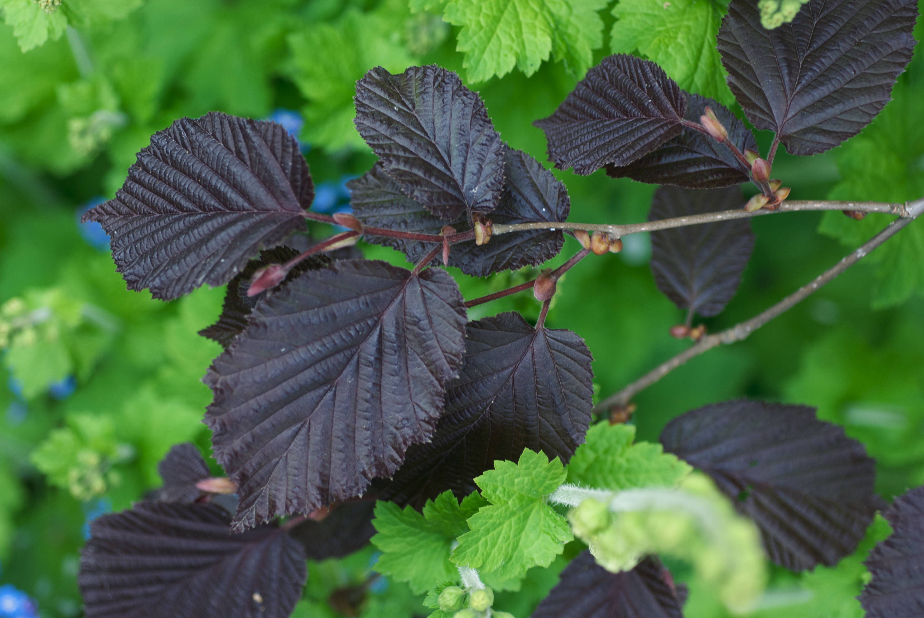 Corylus maxima 'Purpurea' — common name: Filbert (cultivar). Photographed in Volunteer Park, Seattle. Species from Europe